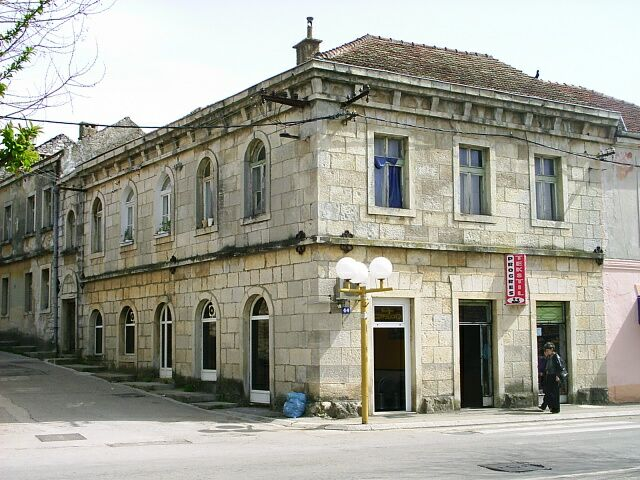 Central part of the town of Bileća, Bosnia and Herzegovina